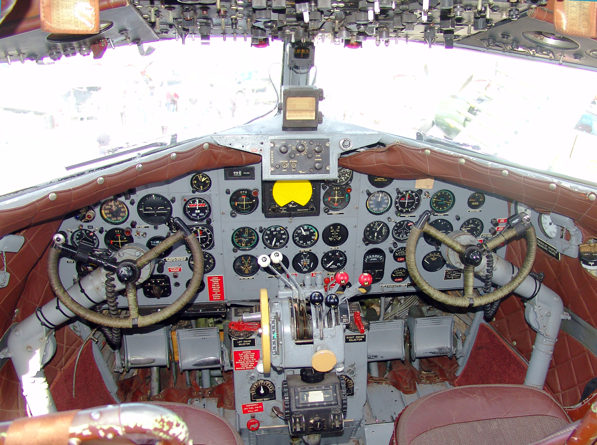 Cockpit of the aircraft DC-3 "N34" – P. Alejandro Díaz - 2005 – N34 is a Douglas DC3 which was operated by the FAA to check navigational radio aids (VOR's and non-directional beacons). It was decided to preserve it for its historical value. The aircraft makes regular rounds at air shows, as a static display. On February 13, 2014, FAA pilots flew N34 from Will Rogers World Airport in Oklahoma City, Oklahoma to Rick Husband Amarillo International Airport in Amarillo, Texas where N34 became an indoor exhibit at the Texas Air & Space Museum. This picture taken September, 2005 at Reno - Stead Airport; Sony DSC-F828 & Photoshop Elements.